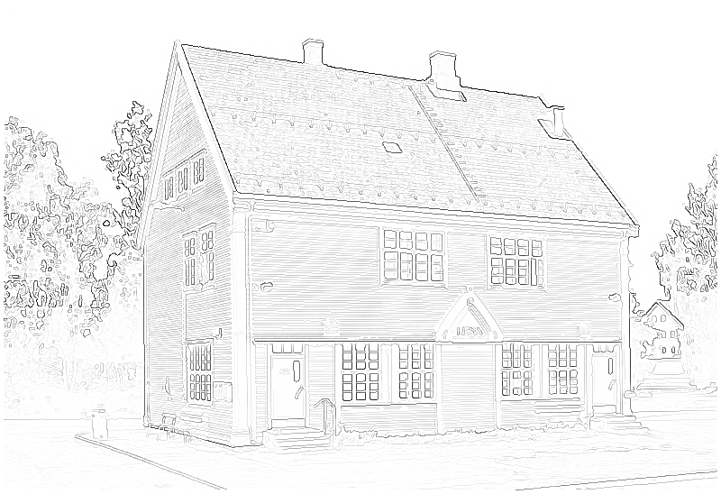 Canny edge detection of Lena stasjon (inverted)